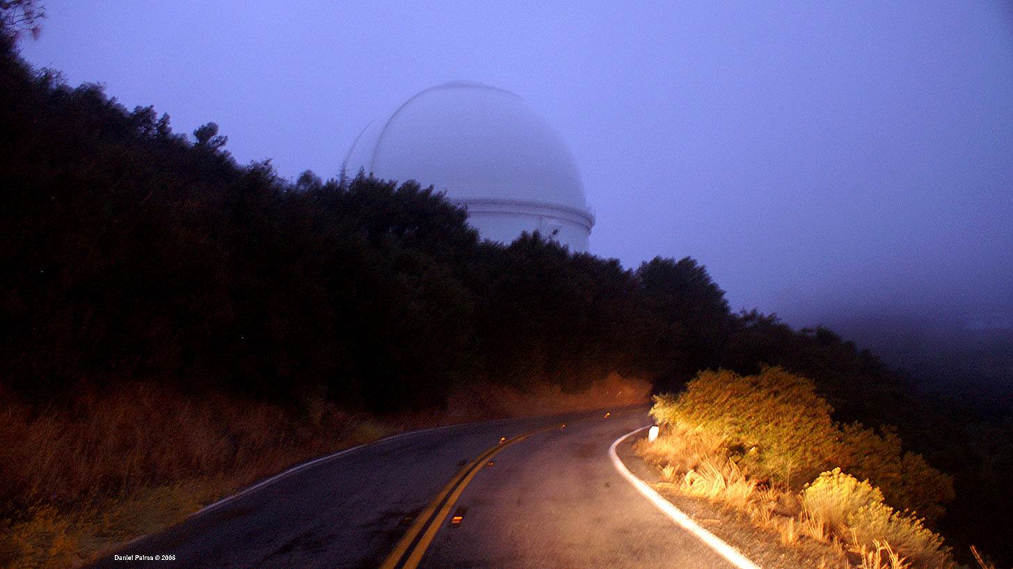 View of the Lick Observatory on Mount Hamilton, California from state route 130. / El Observatorio Lick al este de San José sobre el Monte Hamilton, California desde la ruta estatal 130..